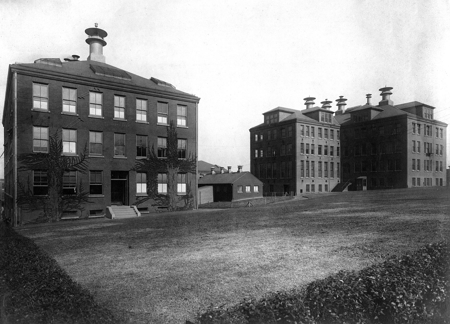 Left: George Archer, Johns Hopkins Medical School Women's Fund Memorial Building, Baltimore, 1894. Right: George Archer, Johns Hopkins Medical School Physiological Building, Baltimore, 1898 or 1899 (photo ca. 1912; Buildings Photograph Collection, Item 184857; courtesy of The Alan Mason Chesney Medical Archives of The Johns Hopkins Medical Institutions, Baltimore, Maryland).